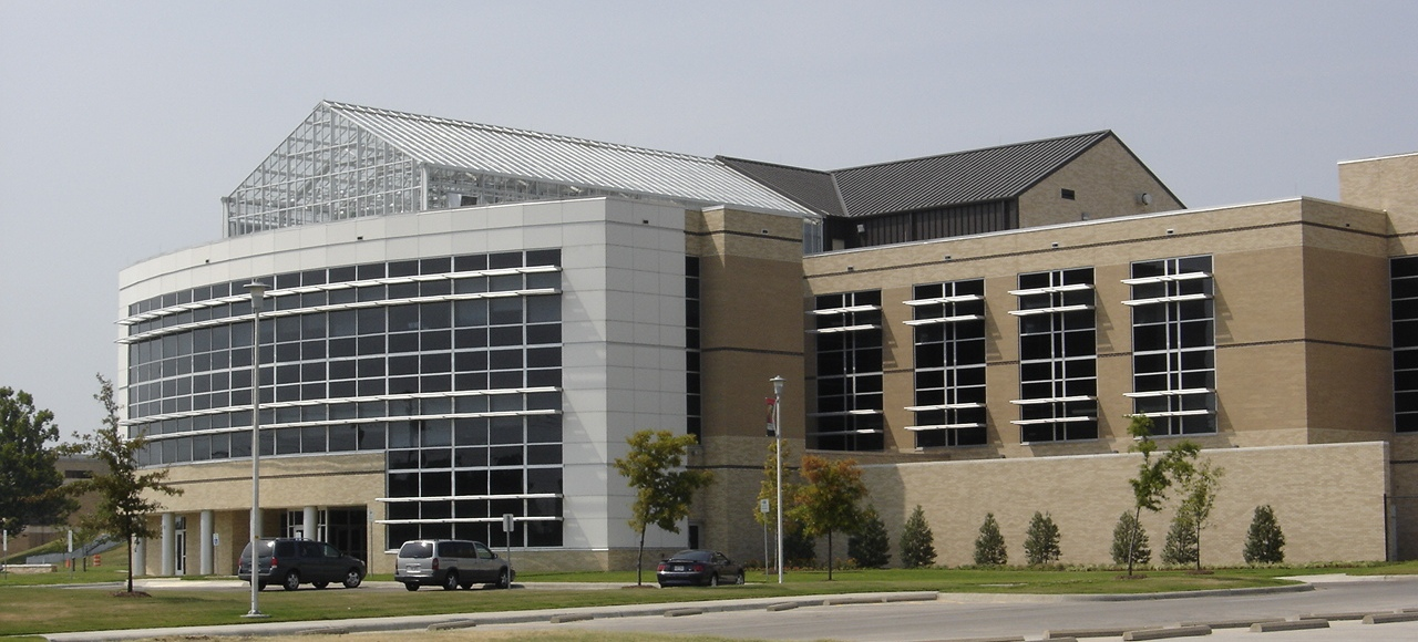 Arkansas State University, Biomolecular Sciences building